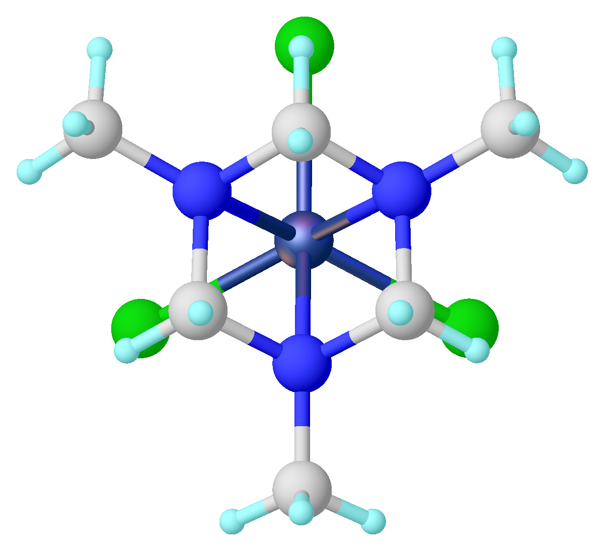 Structure of (Me3TACH)ScCl3 from doi 10.1021/om050209r